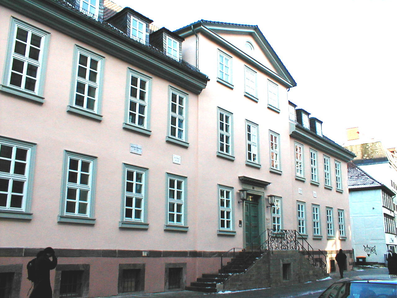 photo of Michaelishaus, formerly belonging to Göttingen university